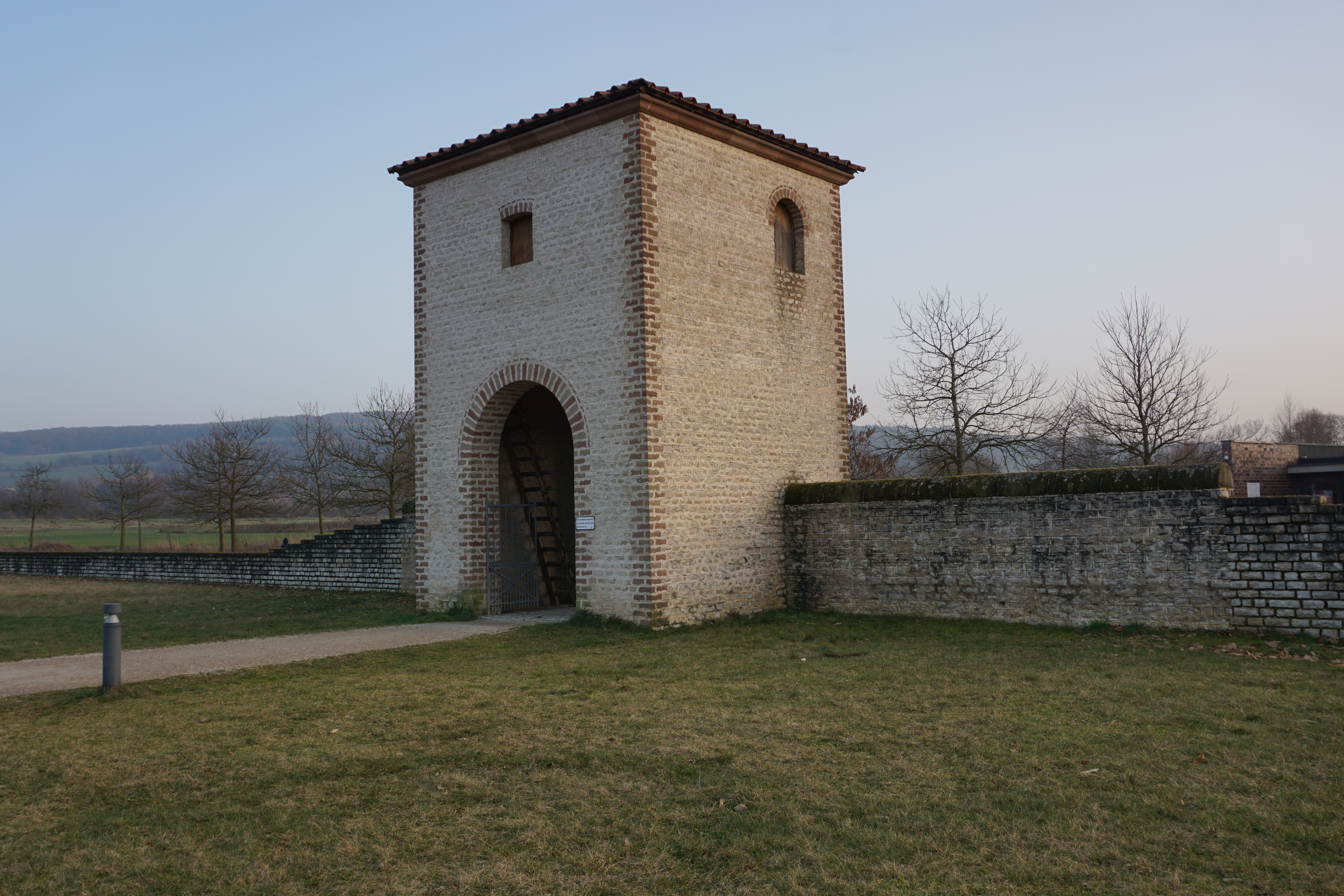 The gate house of the Roman villa of Reinheim.